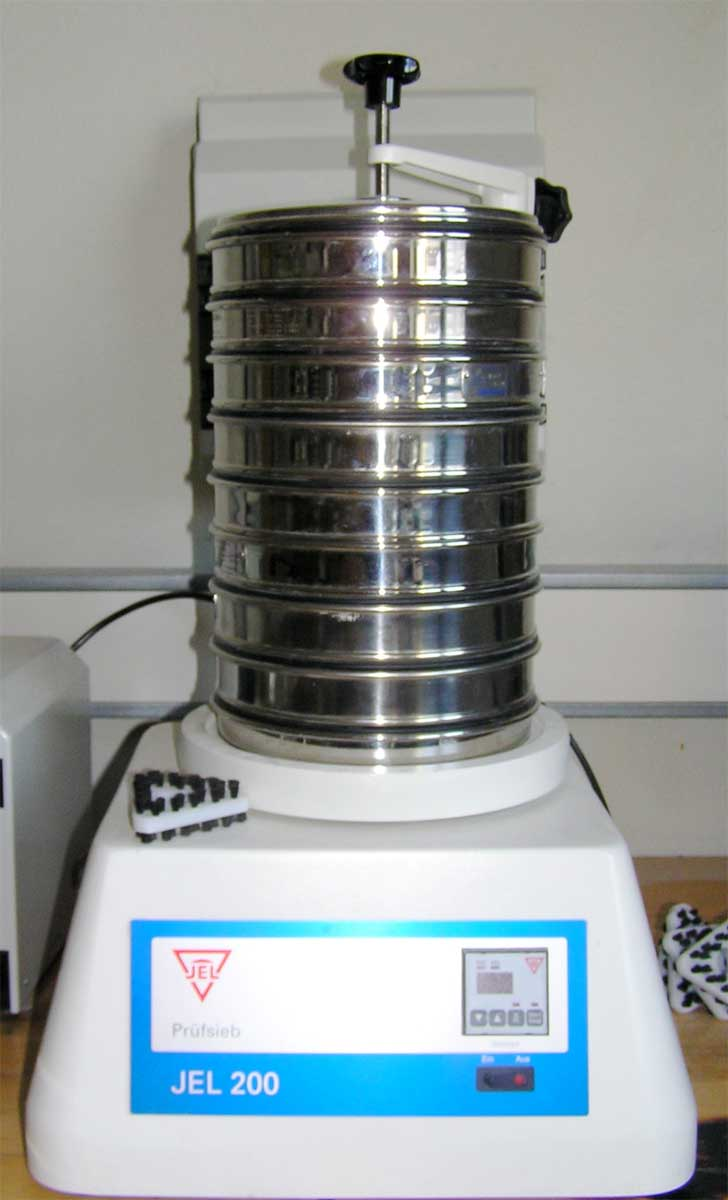 mechanical shaker (apparatus employed for sieve analysis)